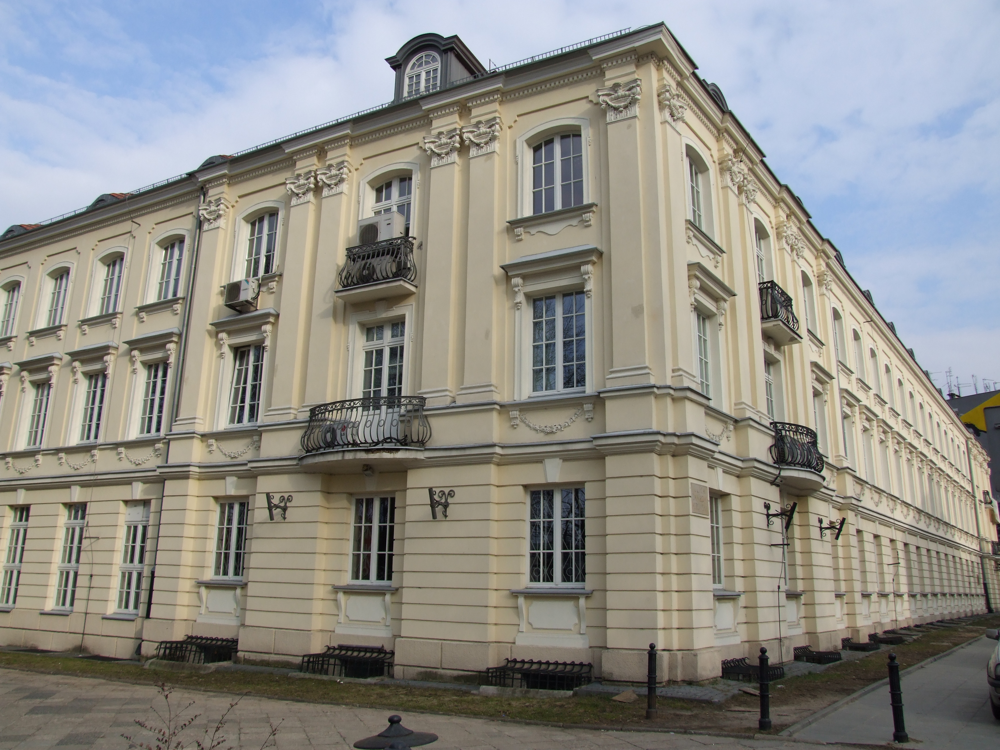 Dembinski's palace on 12, Senatorska st. in Warsaw